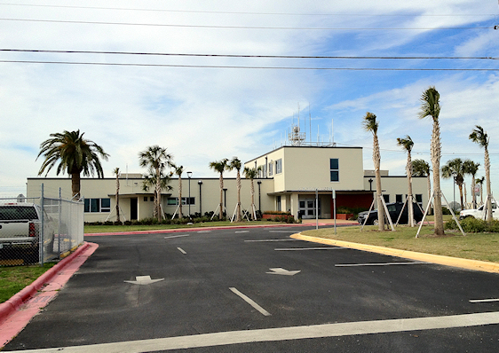 Terminal Building at Scholes International Airport at Galveston, 2012. Building has been gutted and remodeled due to severe flood damage by Hurricane Ike in 2008.